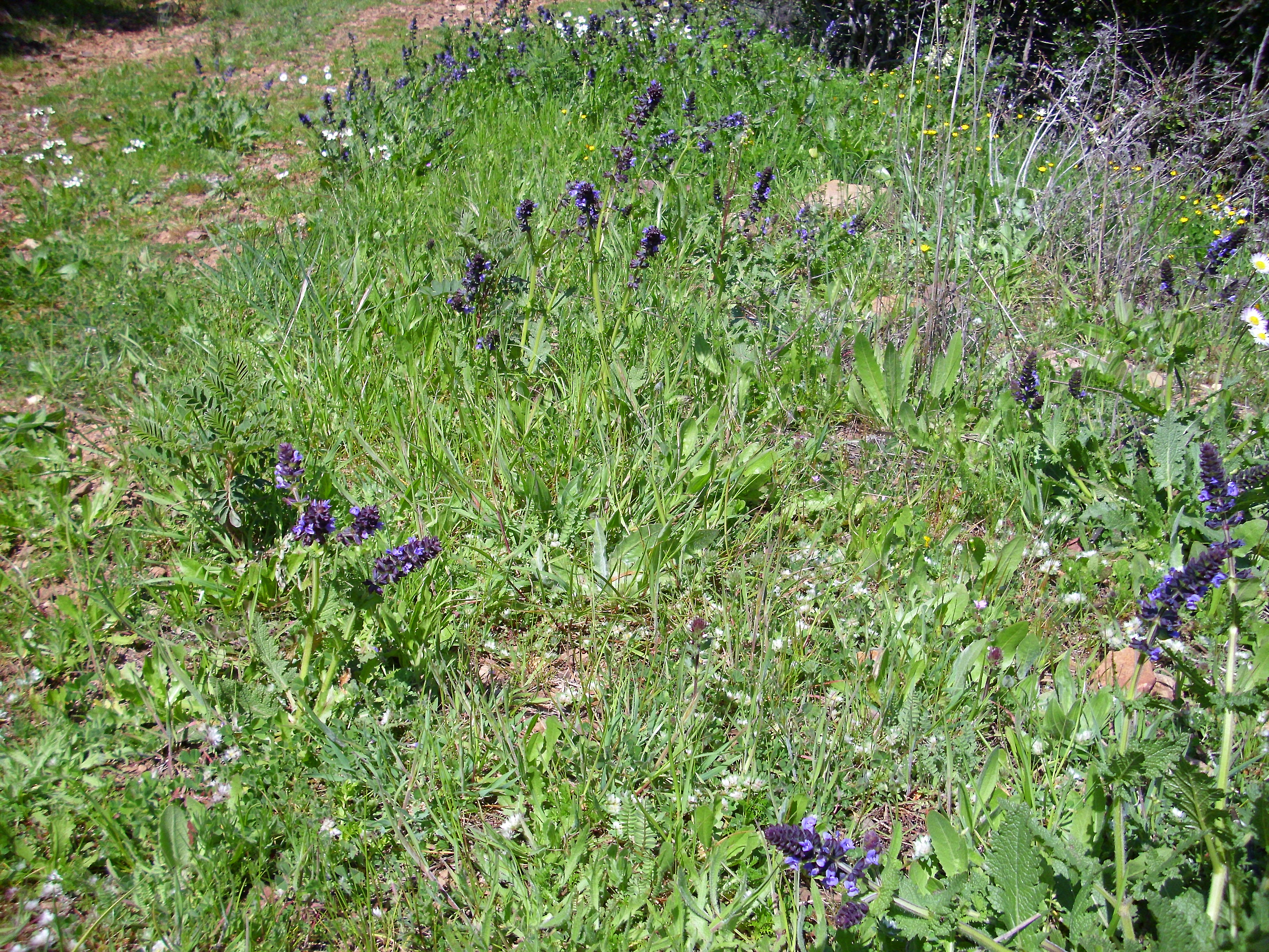 Salvia verbenaca habitat, Sierra Madrona, Spain.